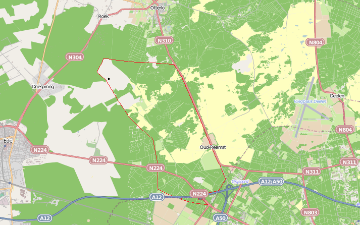 Planken Wambuis, nature park in the Netherlands